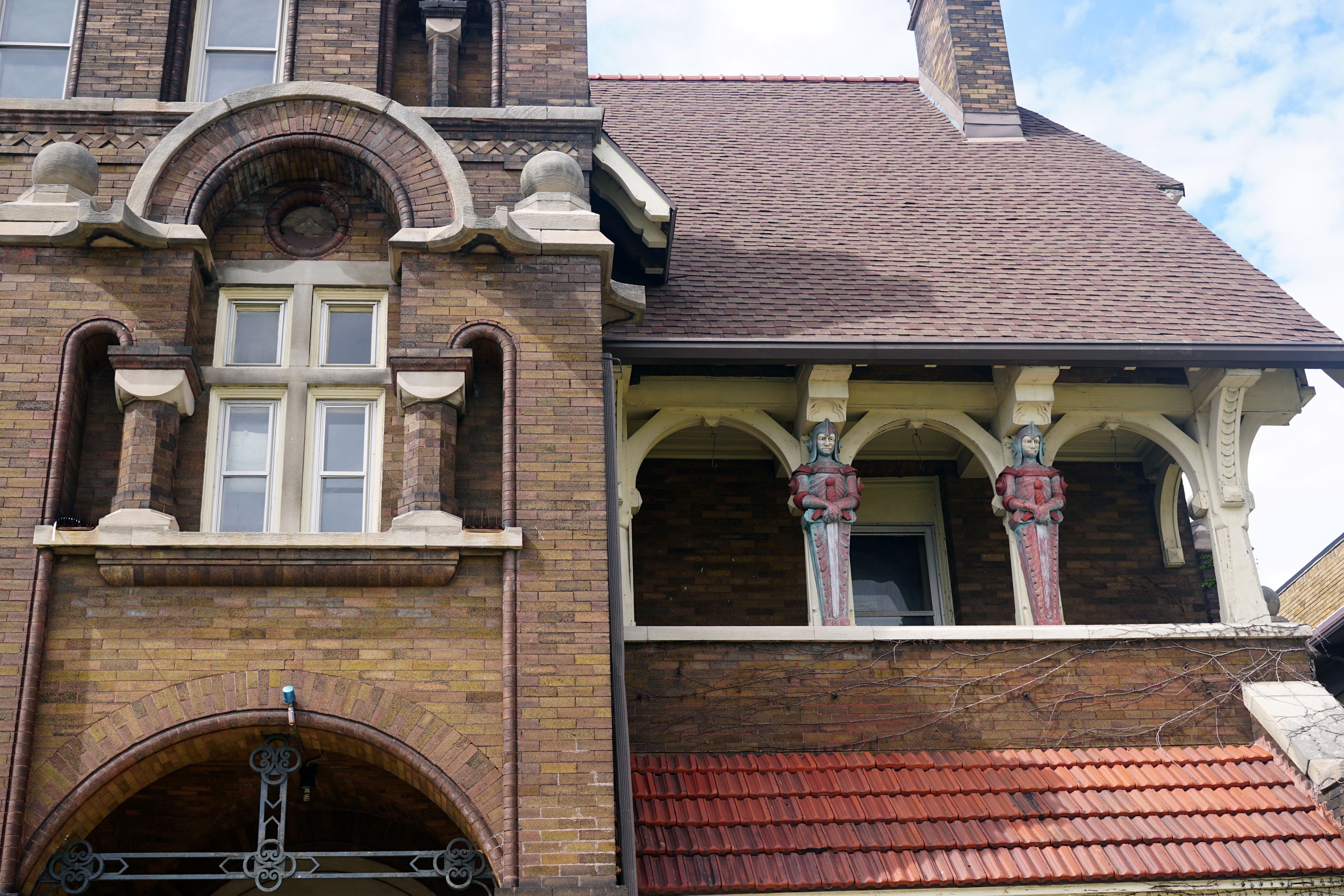 German Renaissance Revival Architecture